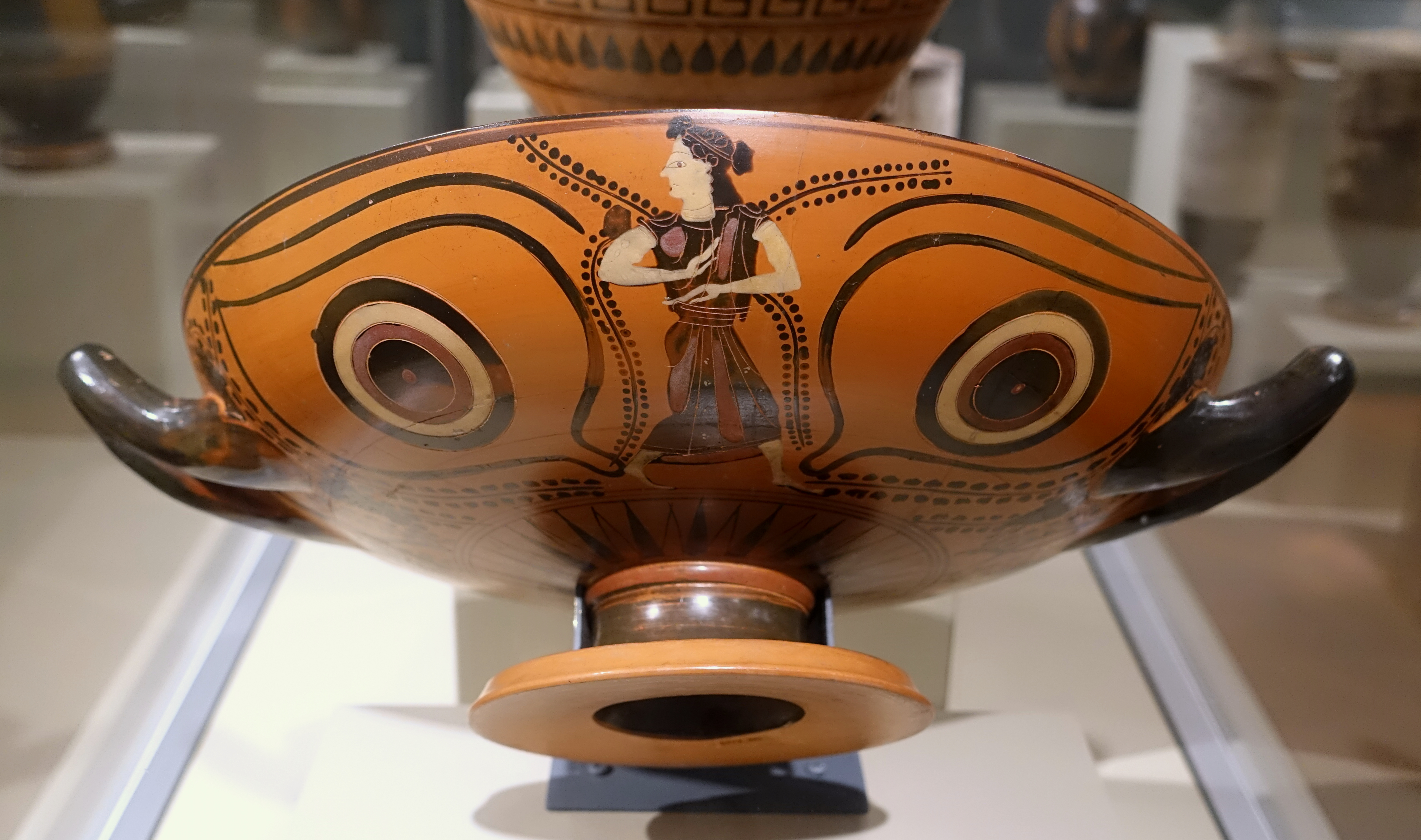 Exhibit in the Middlebury College Museum of Art - Middlebury, Vermont, USA.